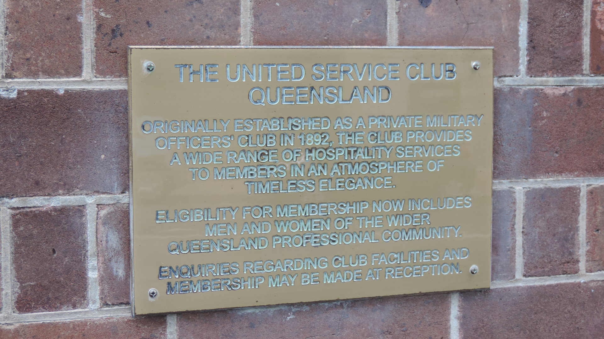 Plaque at entrance, Montpelier House, United Services Club Premises, Wickham Terrace, Spring Hill, Brisbane, 2015